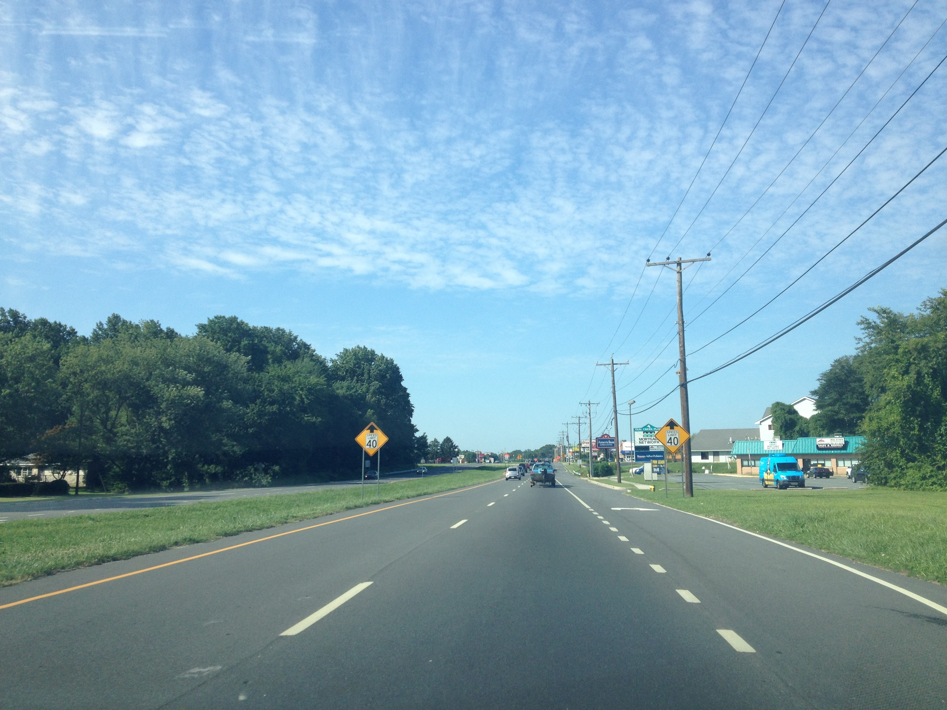 Southbound U.S. Route 113 (Dupont Boulevard) approaching the intersection with Delaware Route 14 (Milford Harrington Highway/Northwest Front Street) in Milford, Delaware.